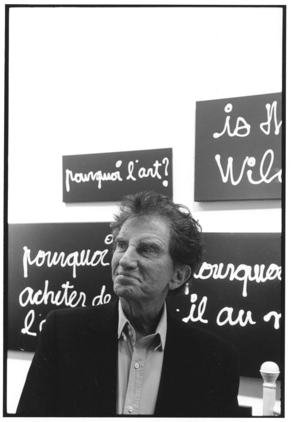 Jack Lang at Gallery Lara Vincy, Paris, on January 17, 2019